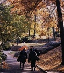 Sarah Lawrence Campus